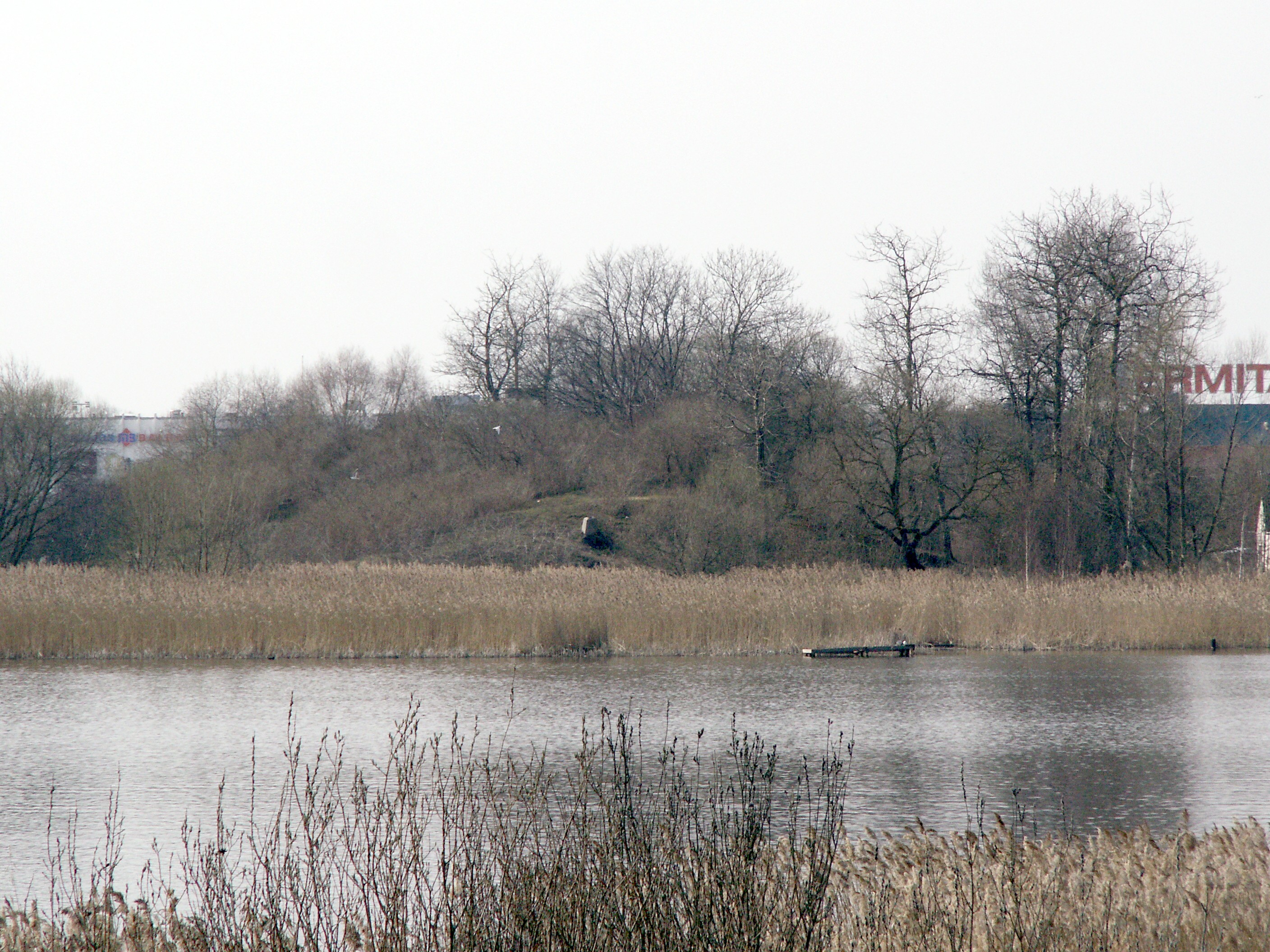 Vingaudas hillfort, Šiauliai district, Lithuania